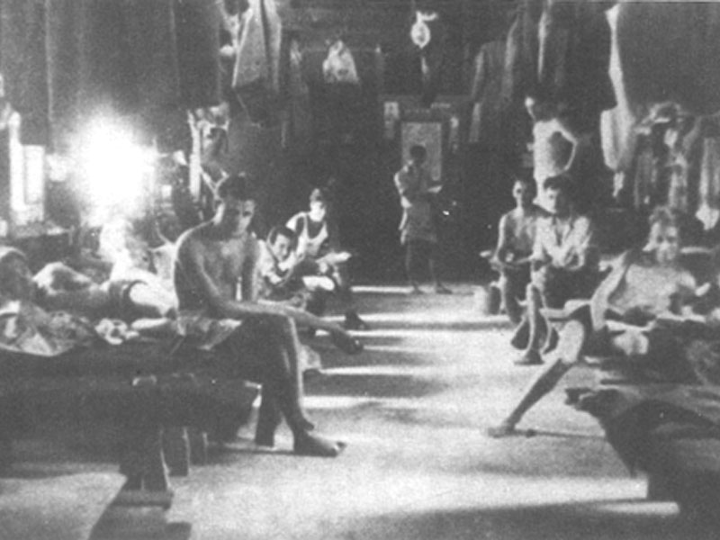 Residential barrack